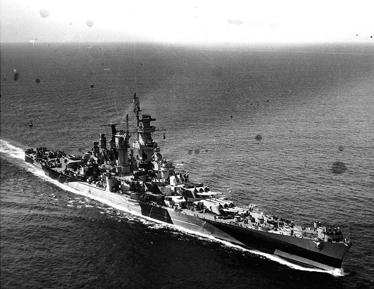 The U.S. Navy large cruiser USS Alaska (CB-1) underway on 11 September 1944.